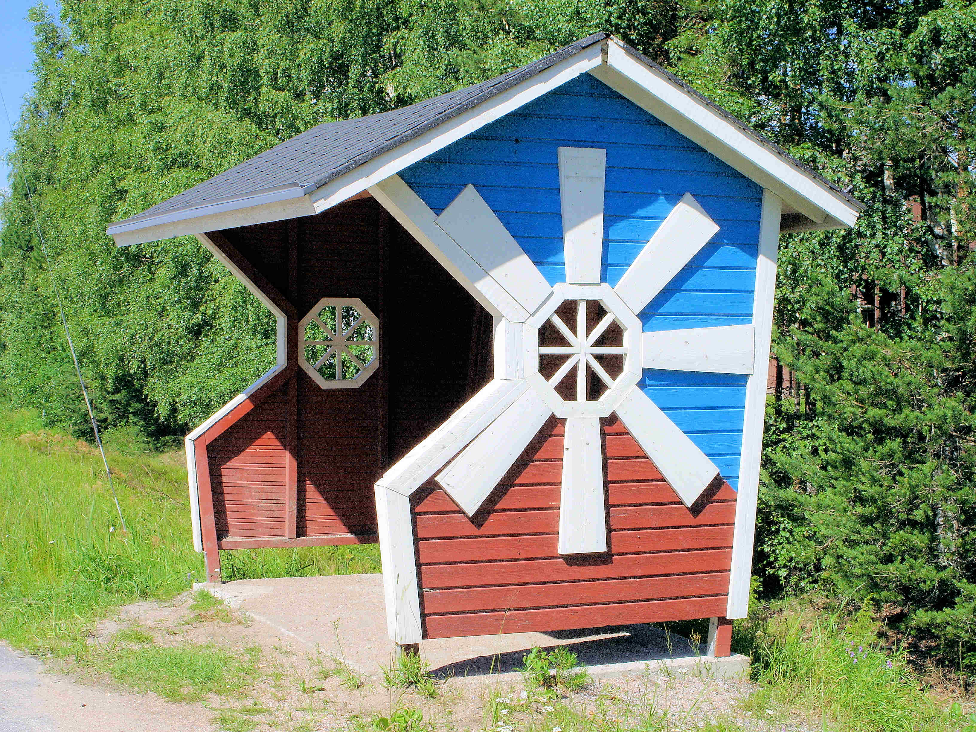 Bus stop shelter in Jalasjarvi, Finland Construction: A wooden bus stop shelter decorated with a wind mill theme. Wind mills are symbols of Jalasjarvi. Geographical position: N 62°23.211' E 022°48.214', Tampereentie 1122, Koskue, municipality of Jalasjarvi Photograph: Canon EOS 350D, Olli-Jukka Paloneva, 3rd July, 2007, References: The municipality of Jalasjarvi (Finnish translittaration Jalasjärvi)